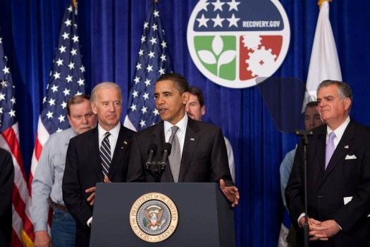 President Barack Obama is joined by Vice President Joe Biden and U.S. Secretary of Transportation Ray LaHood, right, as he gives remarks on the economy Monday April 13, 2009, during a visit to the Department of Transportation in Washington, D.C.